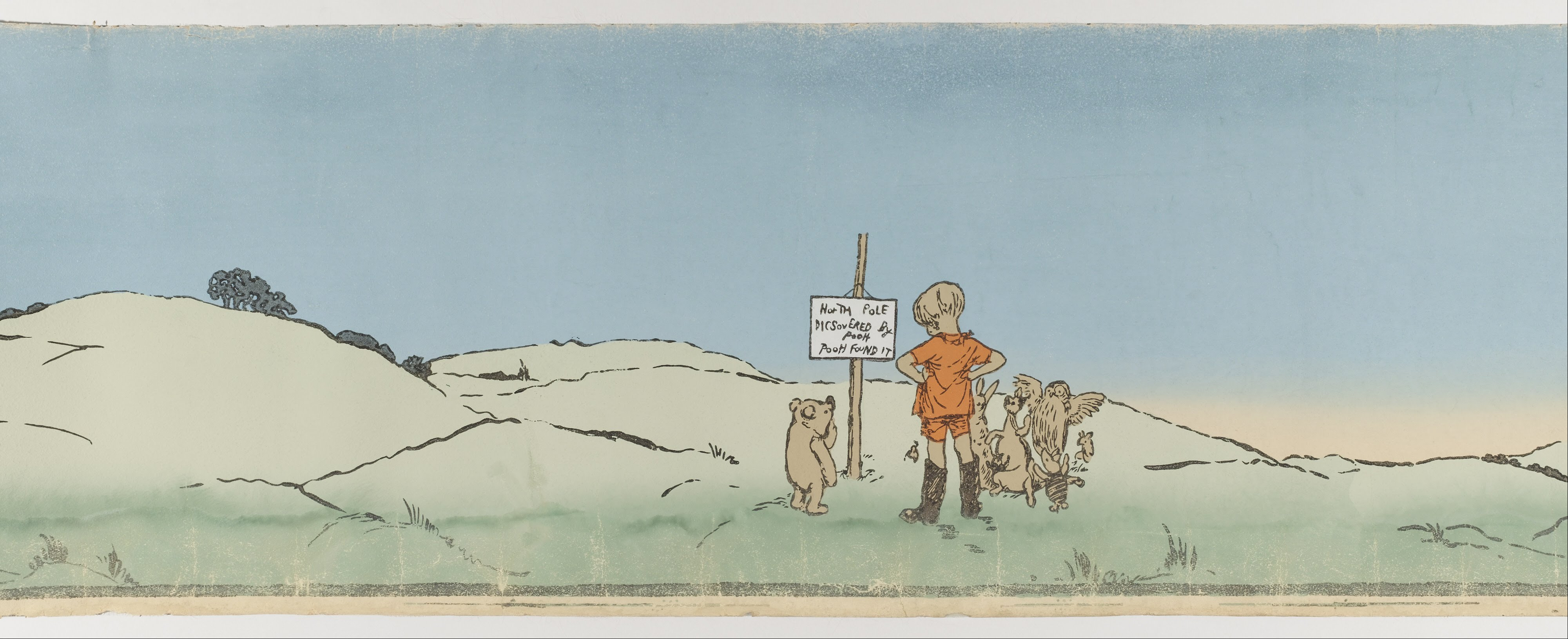 Winnie-the-Pooh chapter "Christopher Robin leads an expedition"